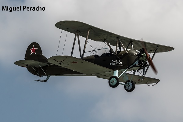 Operated by the FIO at LECU, Madrid.